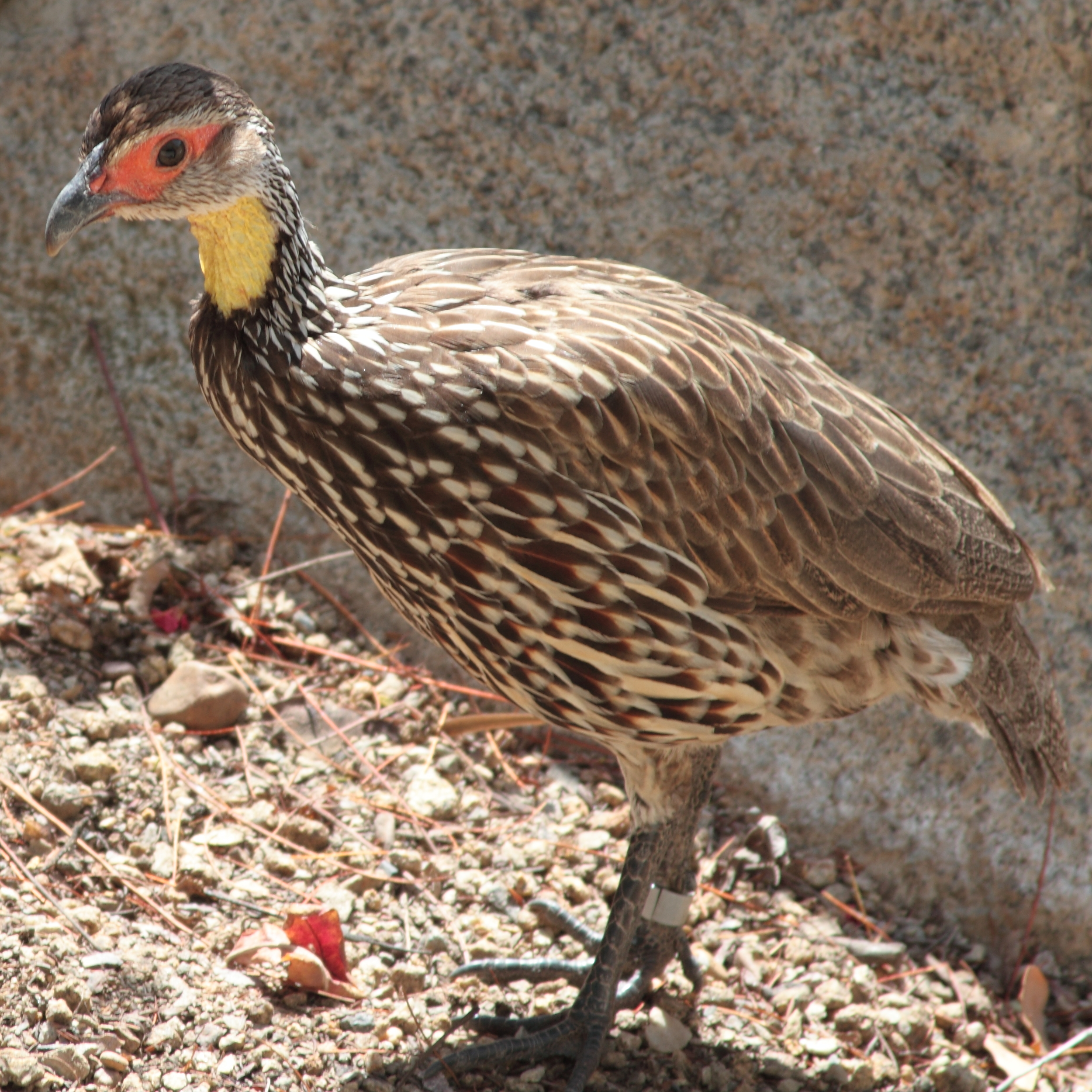 Image of Yellow-necked Spurfowl Pternistis leucoscepus (syn. Francolinus leucoscepus) at the San Diego Zoo